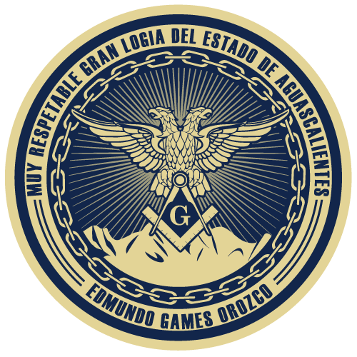 Gran sello